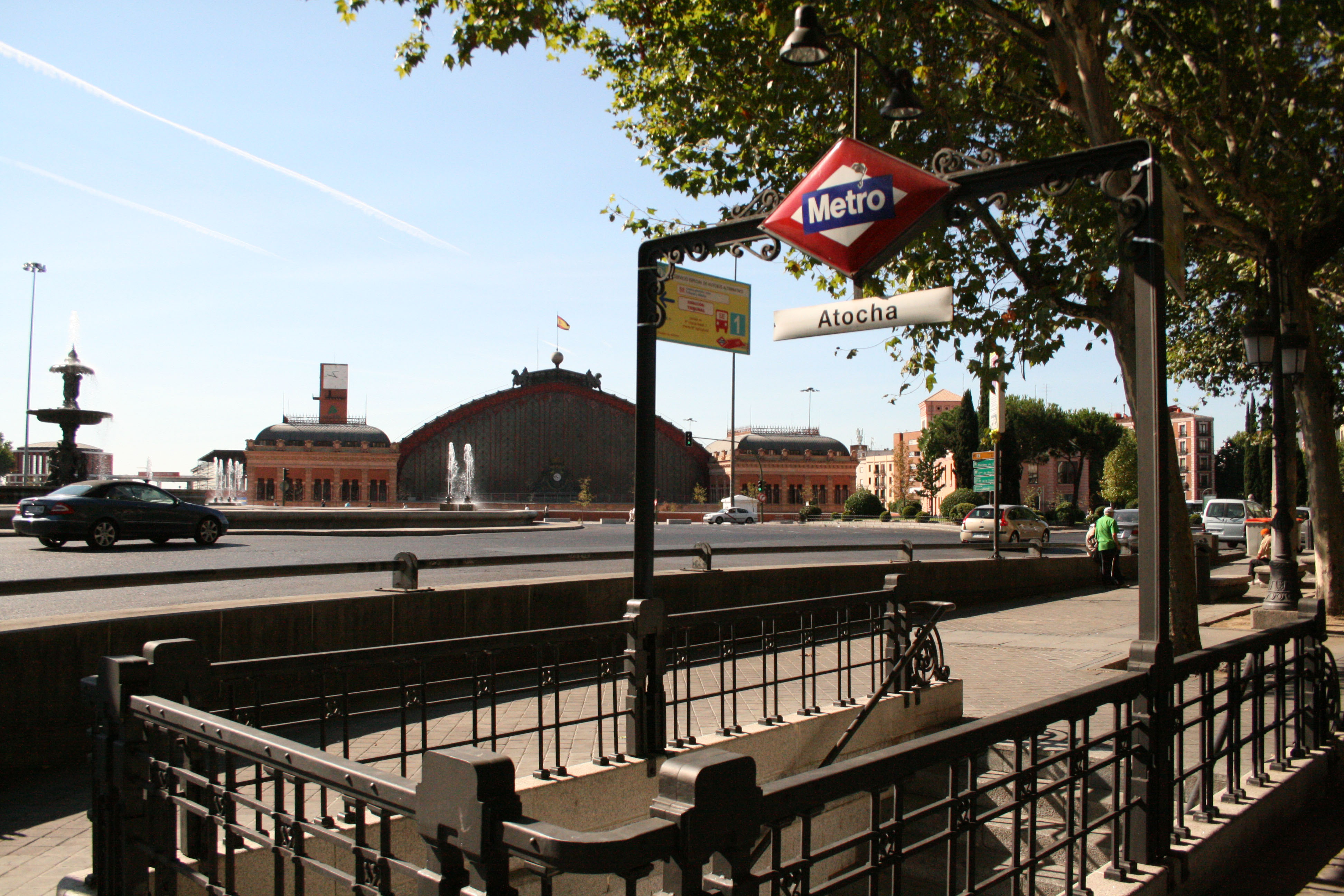 Estación e Metro de Atocha